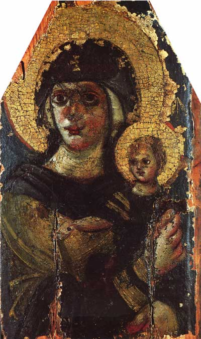 Early christian icon of Our Lady; encaustic. Museum of Bogdan and Varvara Khanenko, Kievm Ukraine. Энкаустическая икона Богоматерь с Младенцем. Музей искусств им. Богдана и Варвары Ханенко, Киев, Украина